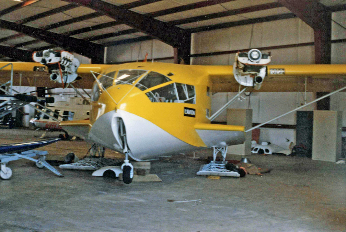 Front view of the Wilson Global Explorere amphibian aircraft at Santa Fe airport, New Mexico, USA.